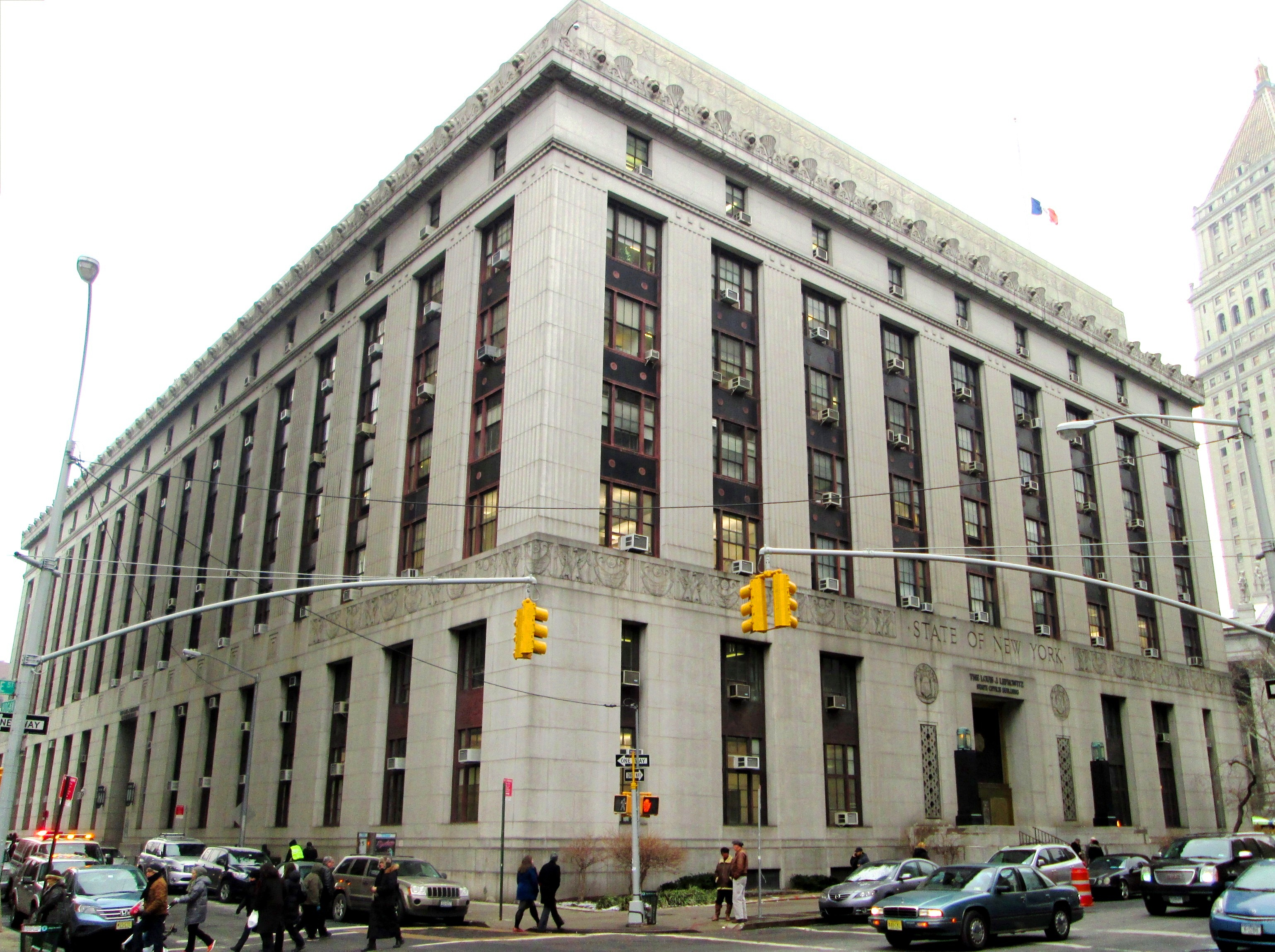 The Louis J. Lefkowitz State Office Building at 80 Centre Street (141 Worth Street) in the Civic Center district of Manhattan, New York City was built in 1928-30 and was designed by William Haugaard, the state architect, who worked under a height restriction so that the new building wouldn't compete with the courthouses on nearby Foley Square. The lobby of the building has an Art Deco Egyptian design, and its facade is made of Maine Coast granite. With 700,000 square feet of office space, it houses offices of the Manhattan District Attorney and other court offices, as well as the City Clerk - entered through 141 Worth Street - and the Manhattan Marriage Bureau; the latter two moved from the Municipal Building in 2009. The building was named for former New York State Attorney General Louis Lefkowitz in 1984. It has been managed by the New York City Department of Citywide Administrative Services since 2002. (Source: DCAS page)